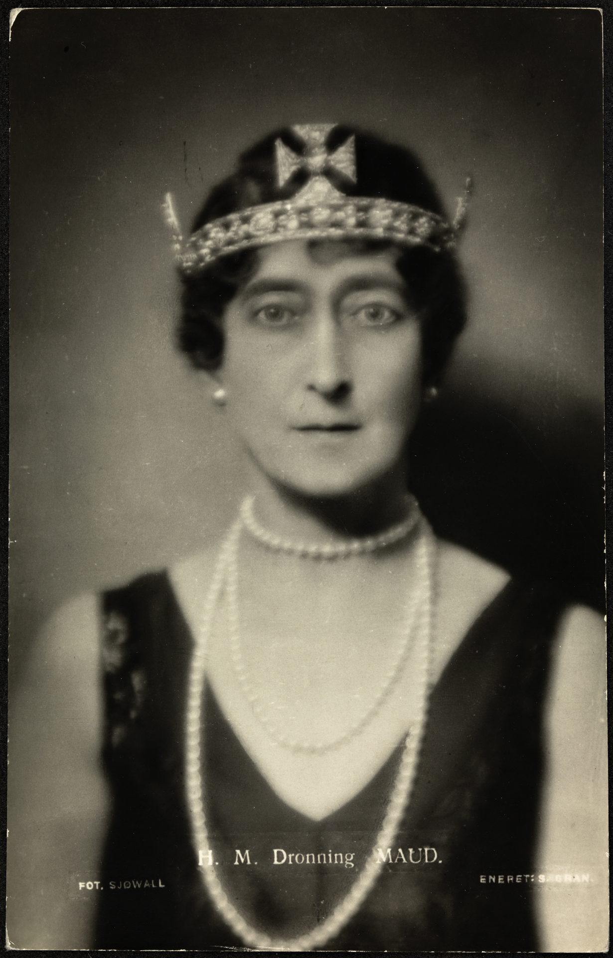 Dato / Date: 1928 Fotograf / Photographer: Gunnar Theodor Sjøwall (1896-1945) Utgiver / Publisher: S. Gran Digital kopi av original / Digital copy of original: sv/hv postkort, sølvgelatin Eier / Owner Institution: Nasjonalbiblioteket / National Library of Norway Lenke / Link: Bildesignatur / Image Number: blds_04733